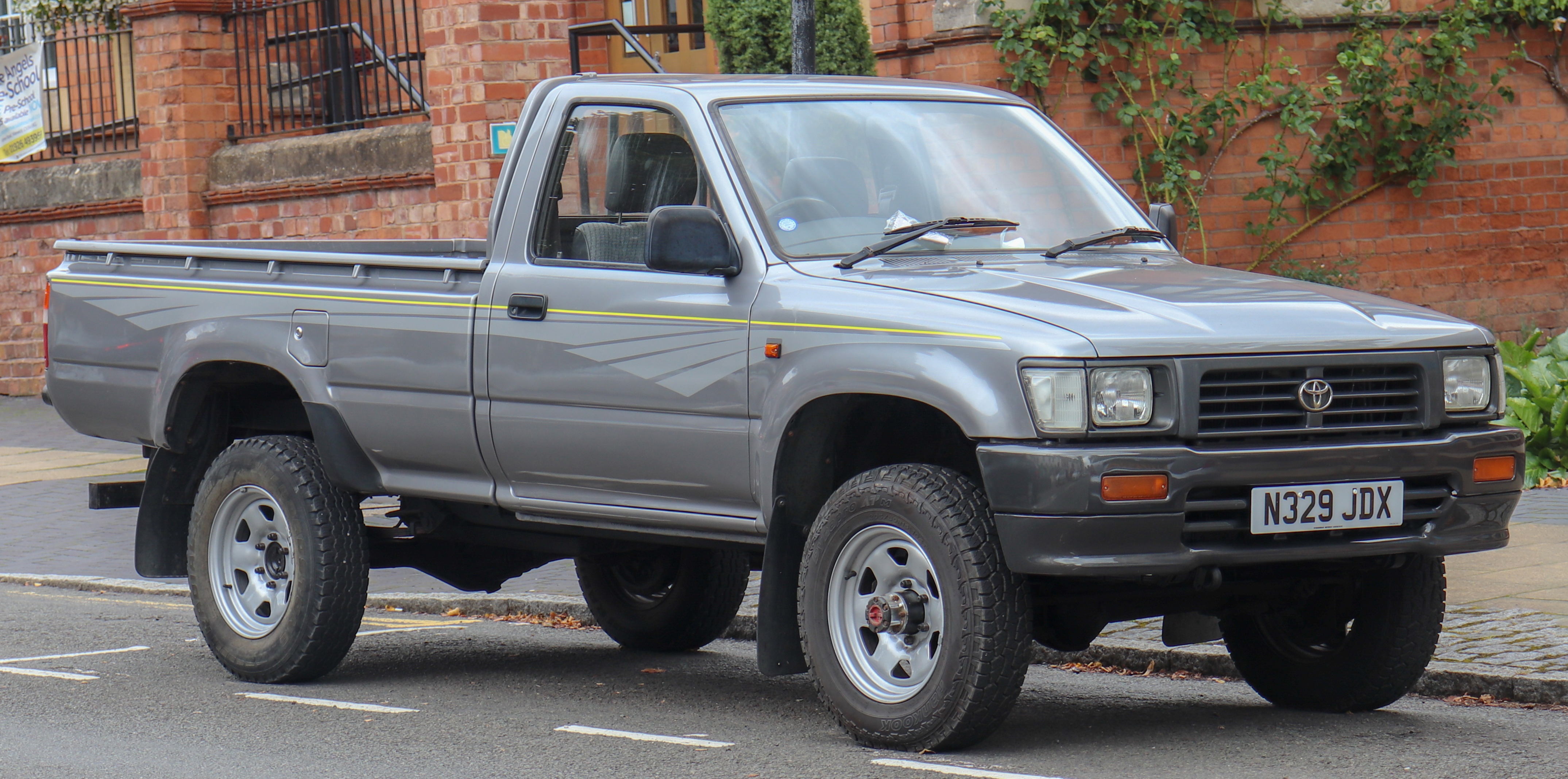 1995 Toyota HiLux 4X4 Diesel 2.5 Front Taken in Warwick